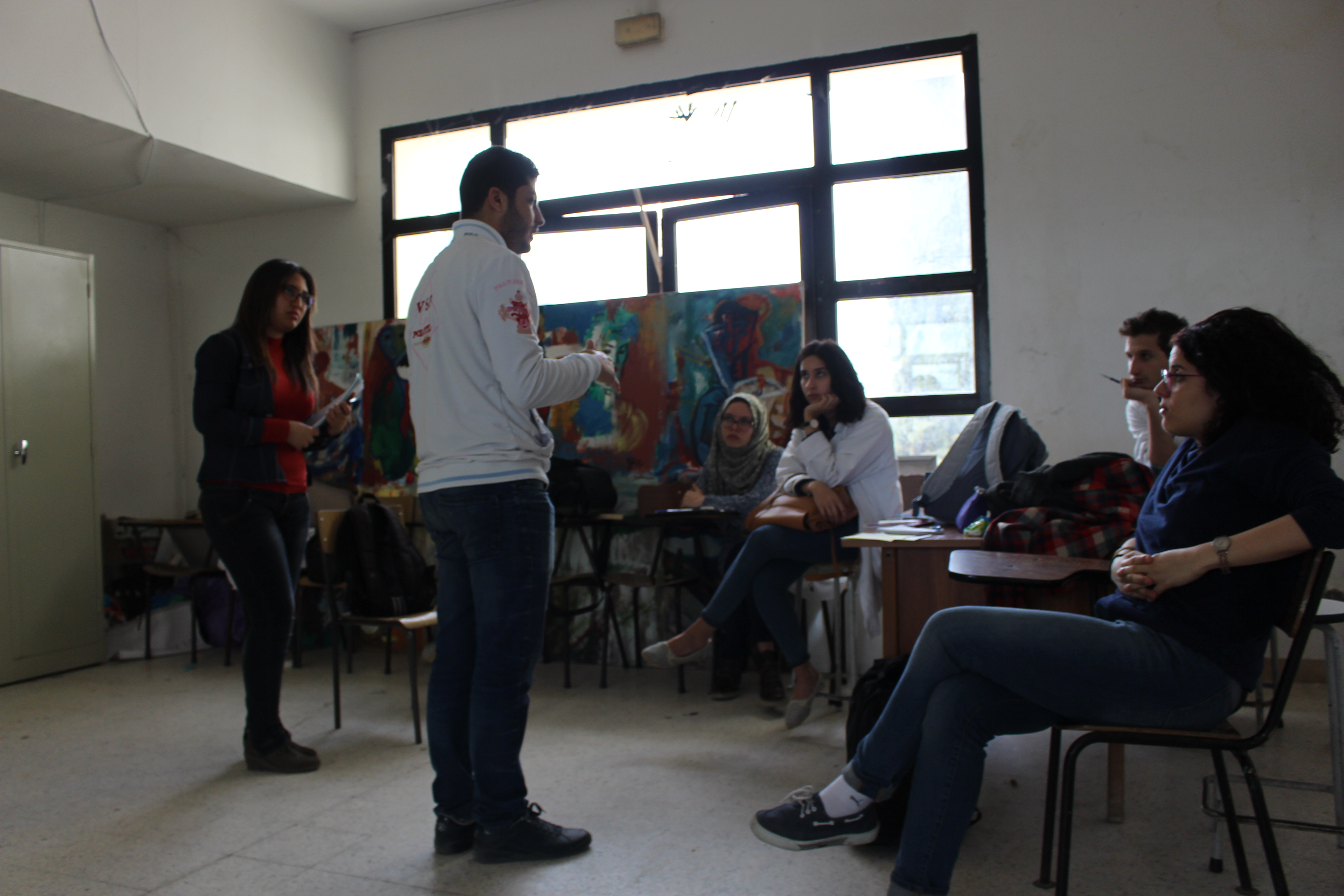 Debating club at the medicine school of Tunis. Medical students are having a training about debating skills.